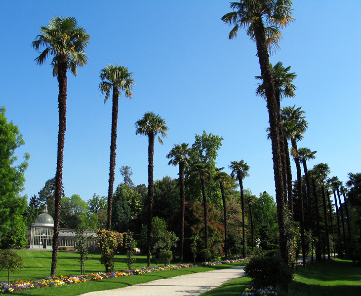 An avenue of Trachycarpus fortunei in Jardin Massey, Tarbes, France.